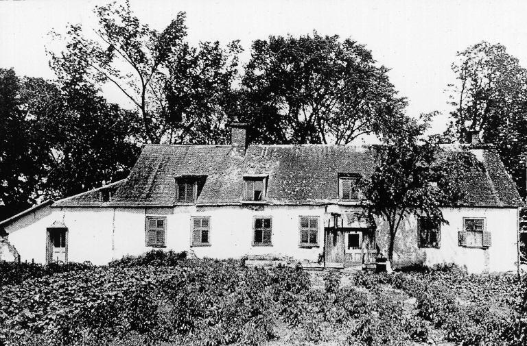 Photograph, glass lantern slide, Mme. Lanaudière's house, St. Anne de la Pérade, QC, about 1922, Silver salts on glass - Gelatin dry plate process - 8 x 10 cm